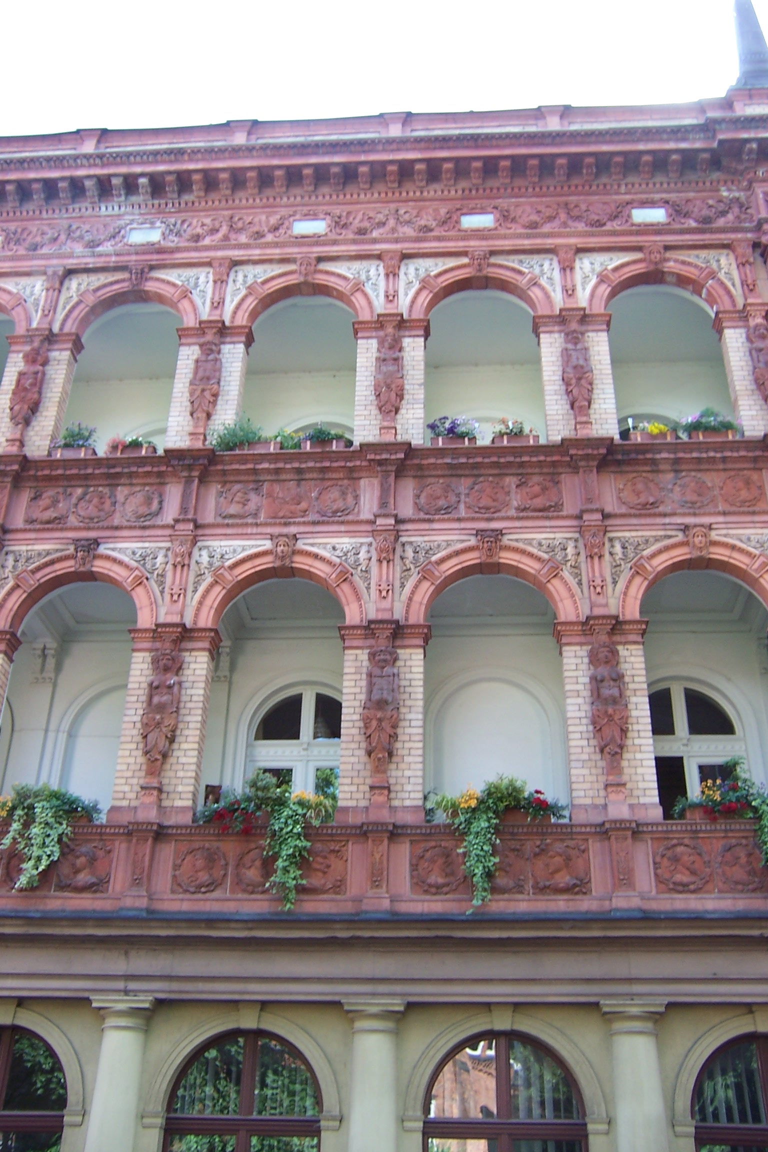 Statius von Düren-Haus in Lübeck, Musterbahn, with terracottas by Statius von Düren